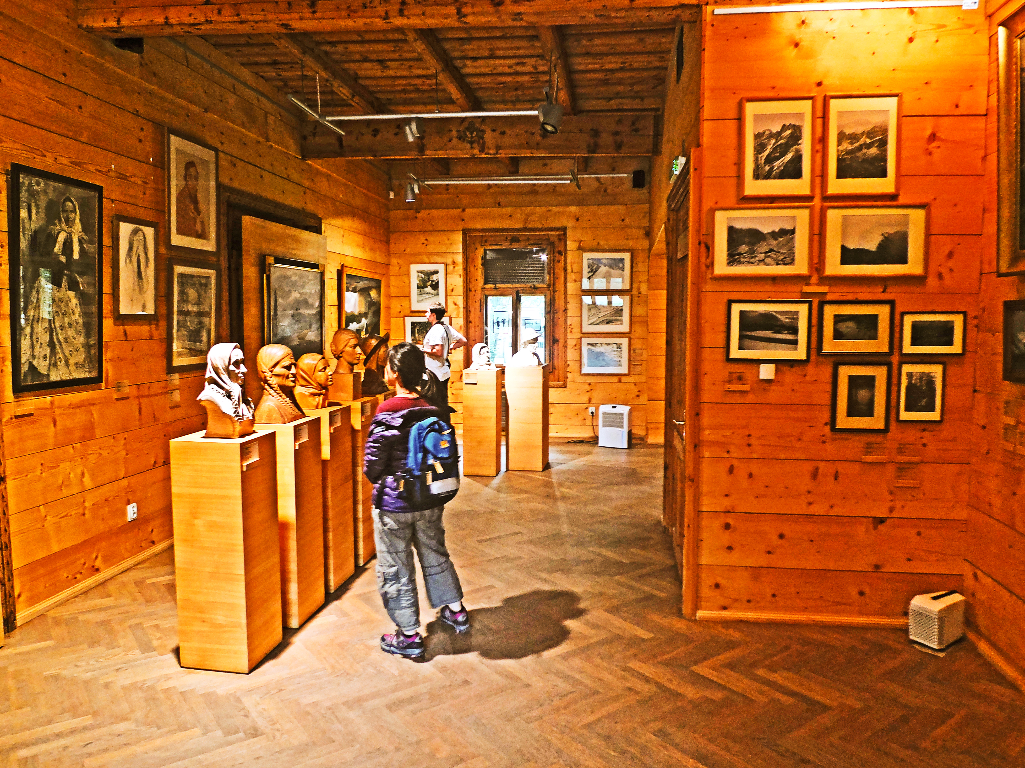 Inetrior and items from a collection of Tatra Museum in Zakopane